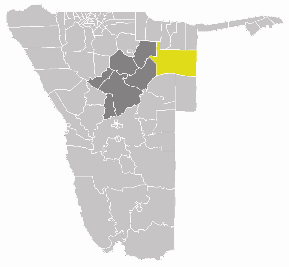 map of the Tsumkwe constituency within the Otjozondjupa region, Namibia